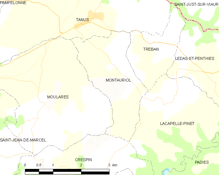 Map of French municipality Montauriol